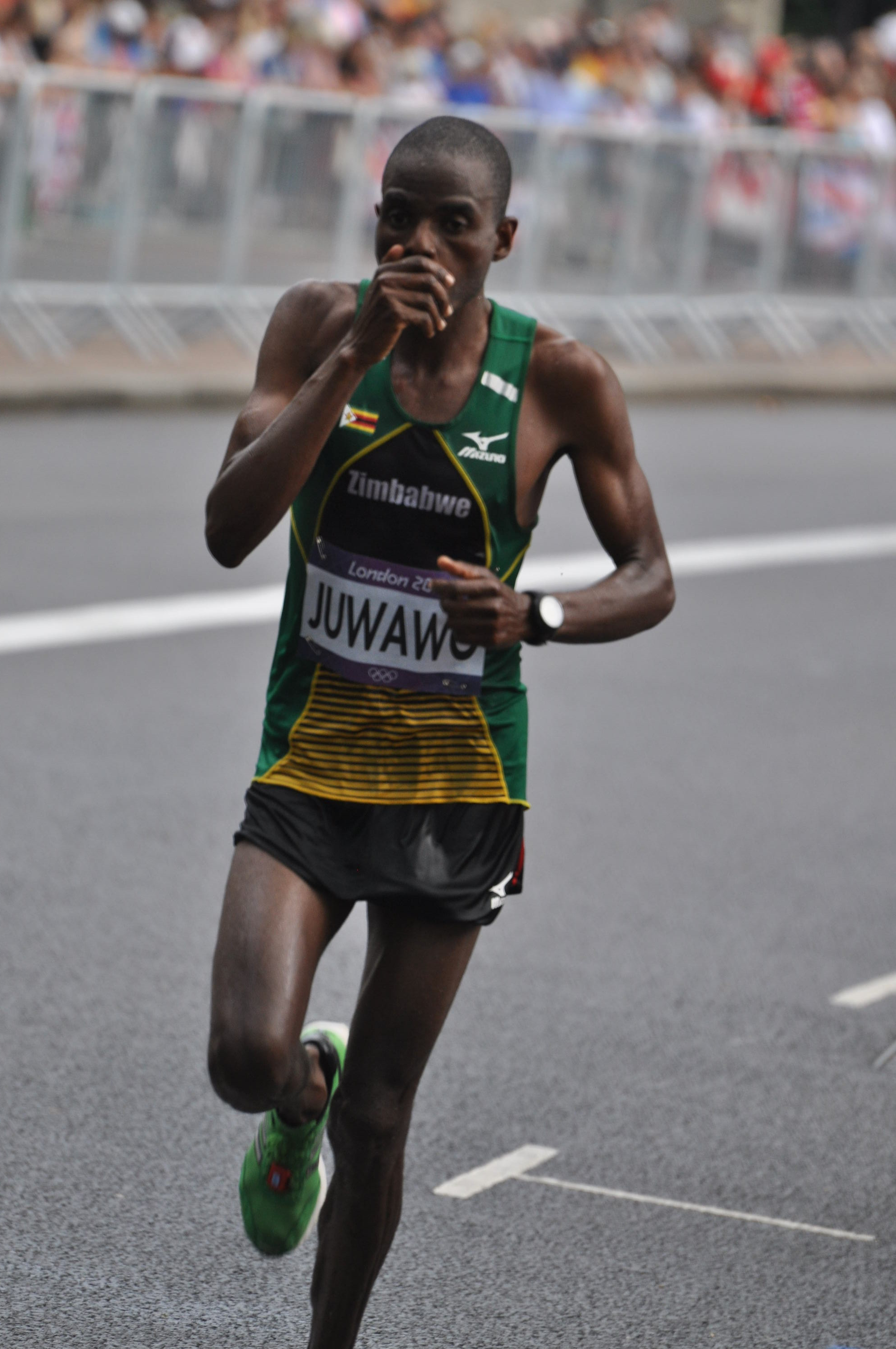 2012 Olympic Marathon